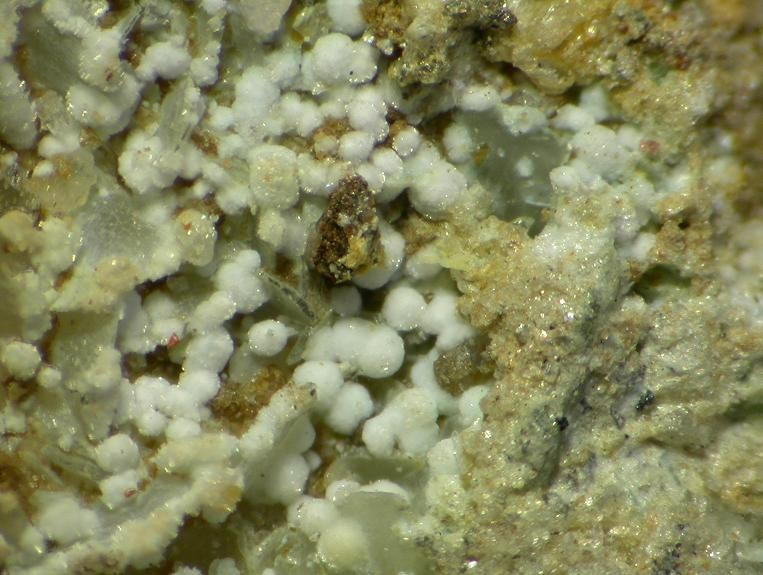 Brianyoungite Locality: St Johannes Mine, Wolkenstein, Marienberg District, Erzgebirge, Saxony, Germany White balls of Brianyoungite. Field of view 4 mm. Specimen and photo Leon Hupperichs.